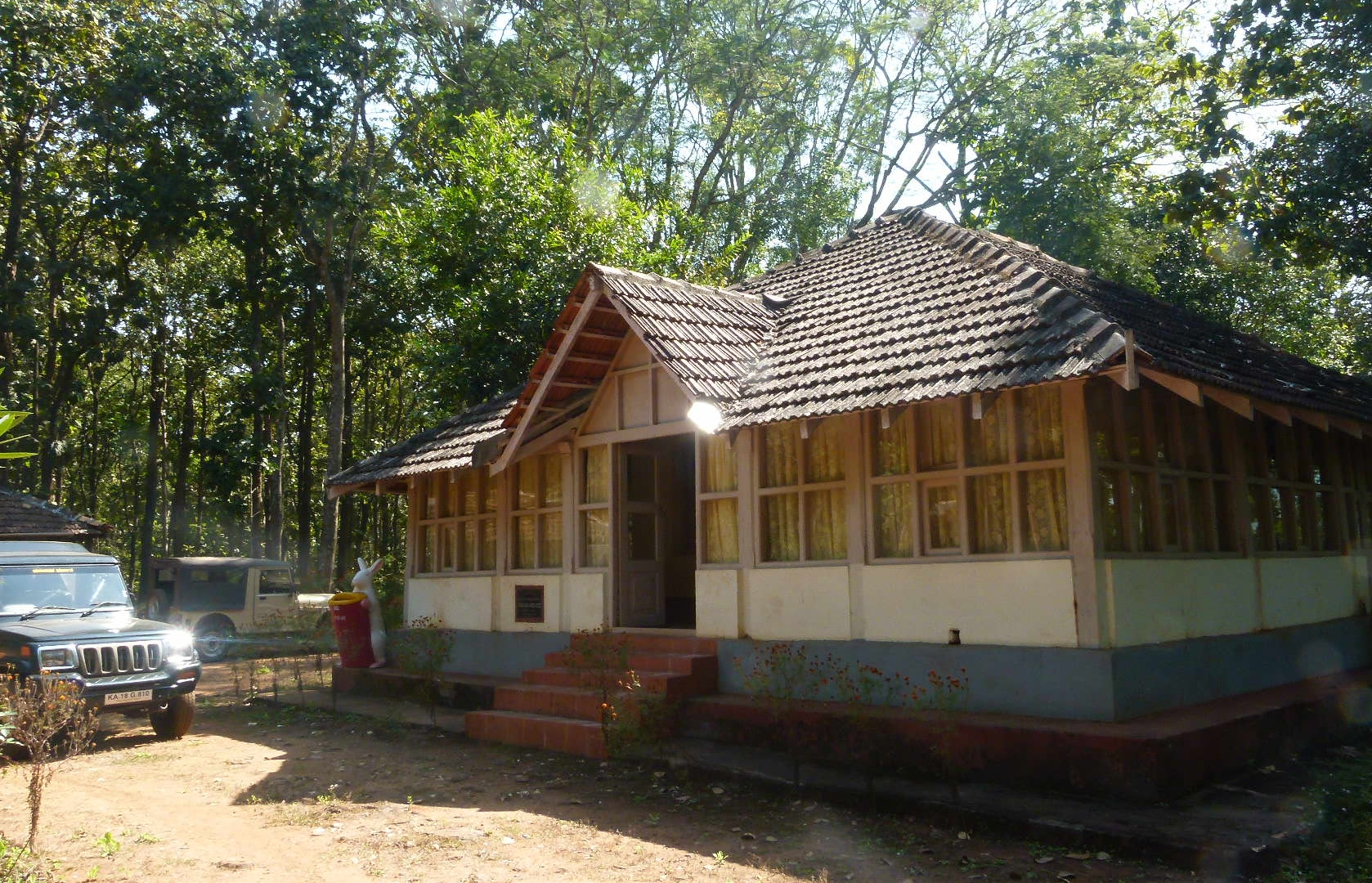 Old British forest bungalow at Kesve in Bhadra Wildlife Sanctuary, India